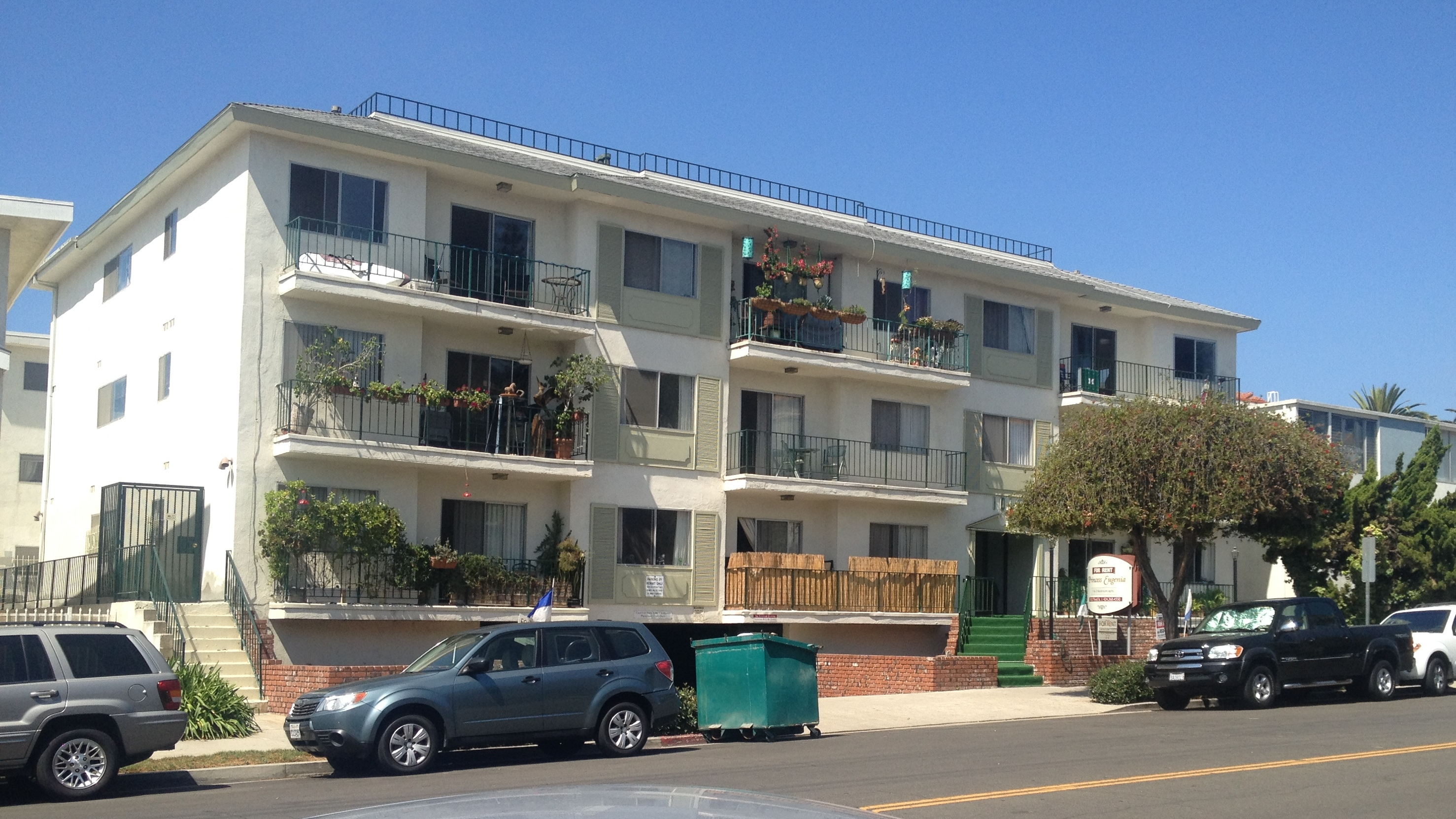 "Princess Eugenia" apartment building at 1012 3rd Street, Santa Monica, California, where Whitey Bulger lived as a fugitive until June 2011.